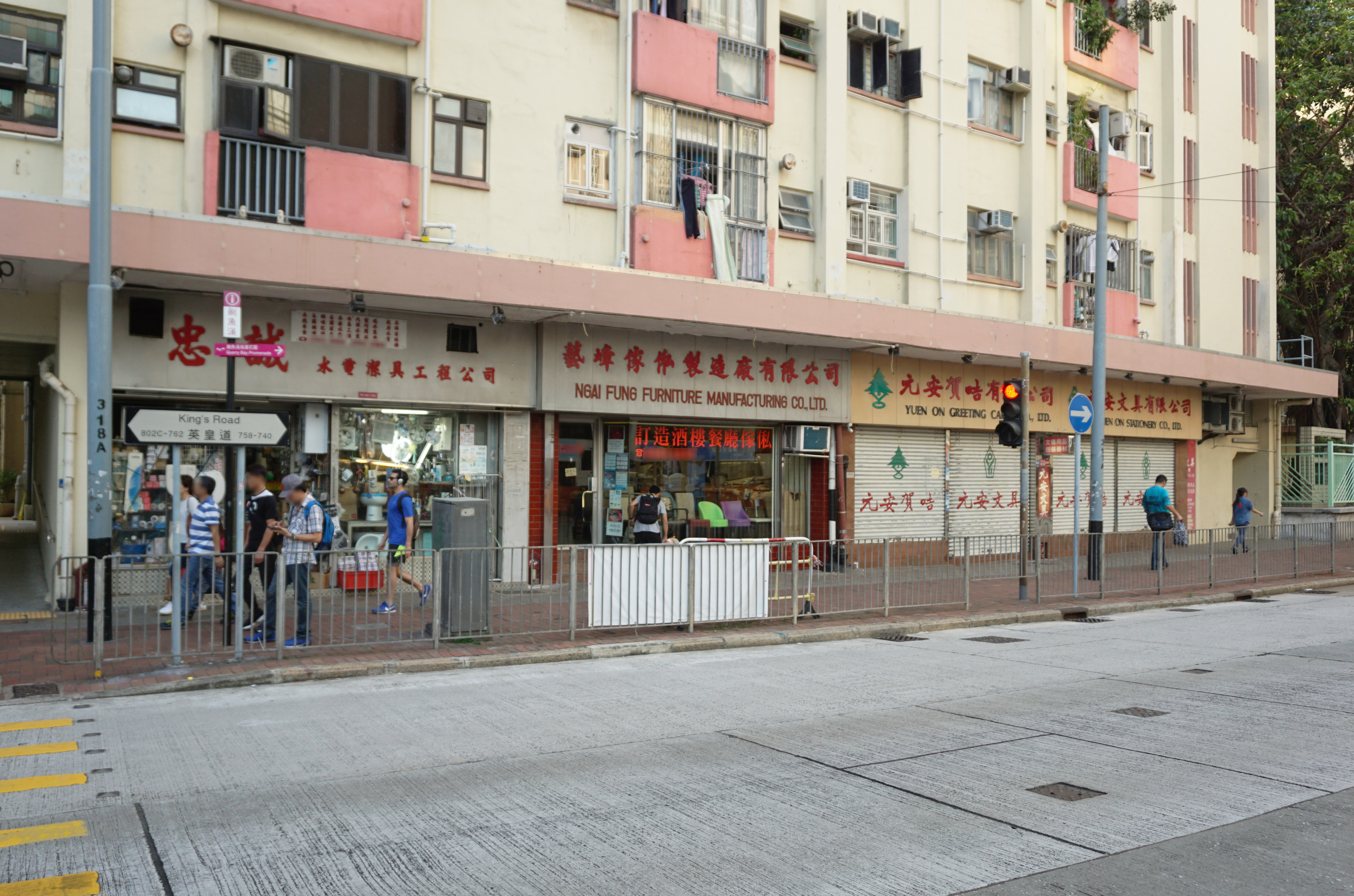 Model Housing Estate in Quarry Bay, Hong Kong.